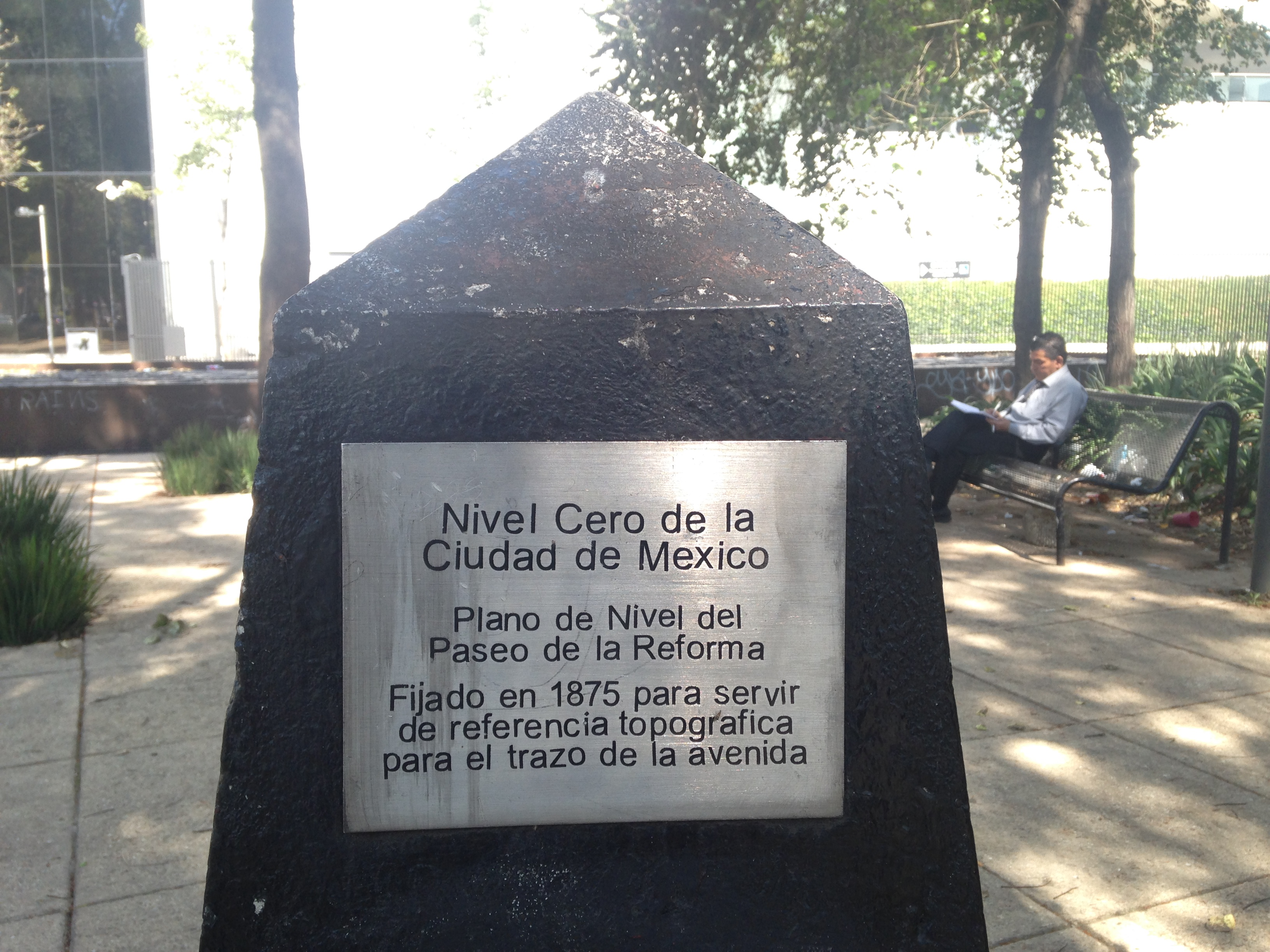 "Mexico City Zero Level", mark used in 1875 as topographic reference for the tracinf of Paseo de la Reforma.